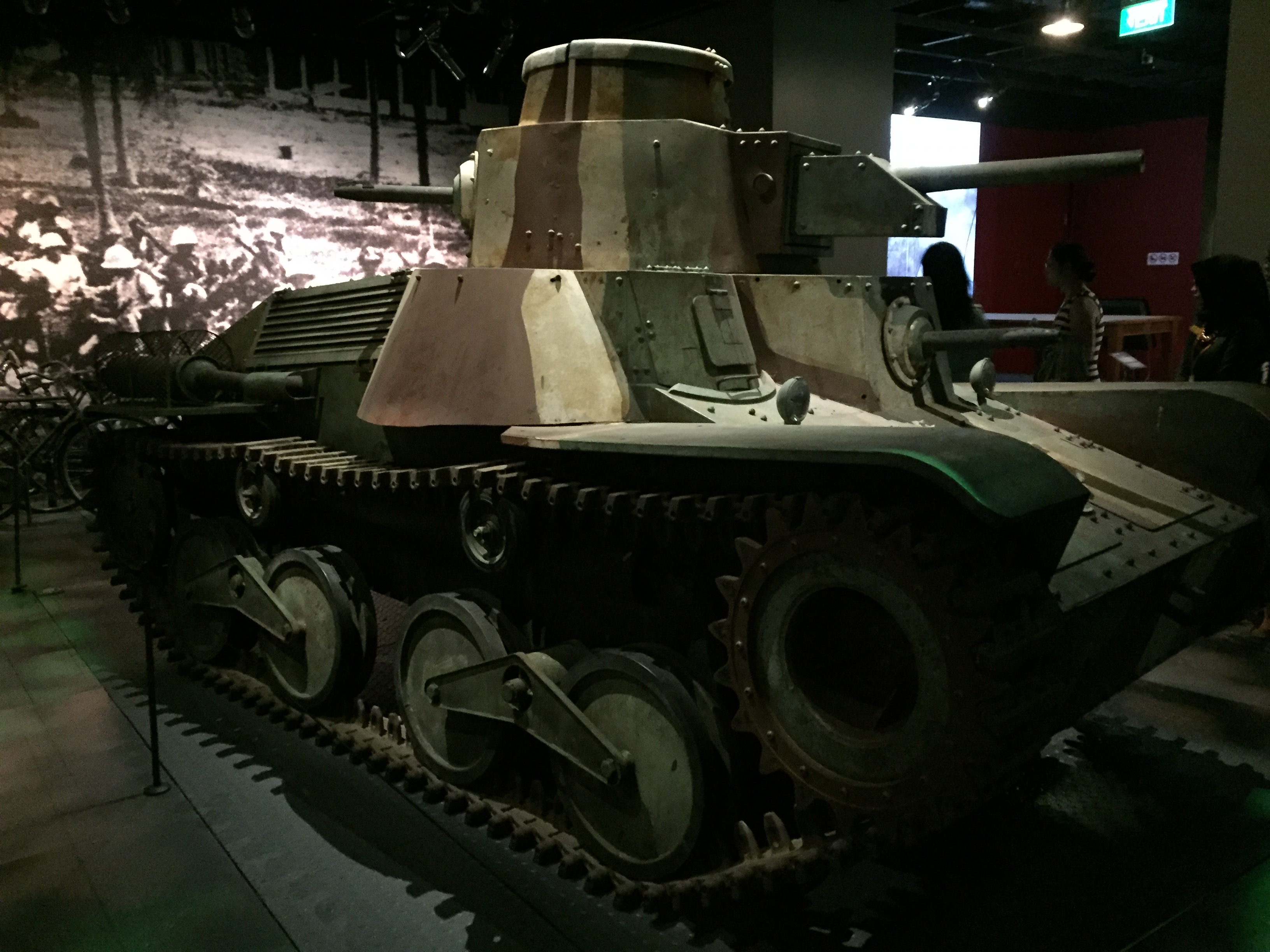 A replica of a Type 95 Ha-Go Japanese tank in the Singapore History Gallery, National Museum of Singapore. Tanks like this were used in Singapore during World War II. This replica, weighing 3.5 tonnes, was one of four built for the miniseries The Pacific (2010); its track was based on an original in the collection of the Australian War Memorial.